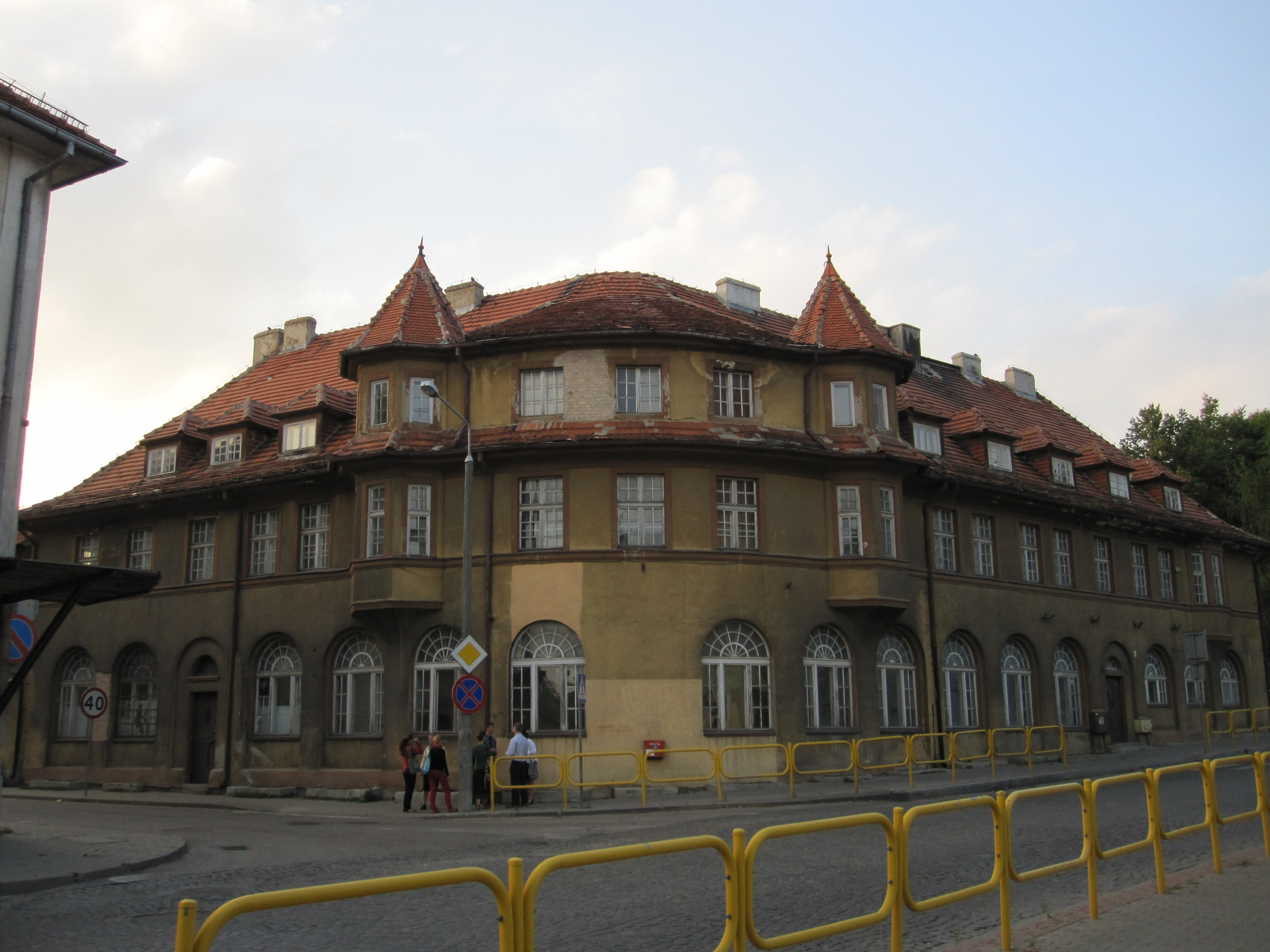 Szczytno - building on the 7 Mickiewicza street